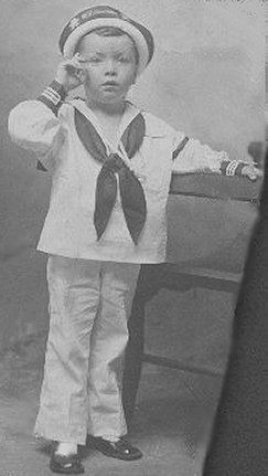 Bill Erwin circa. 1918